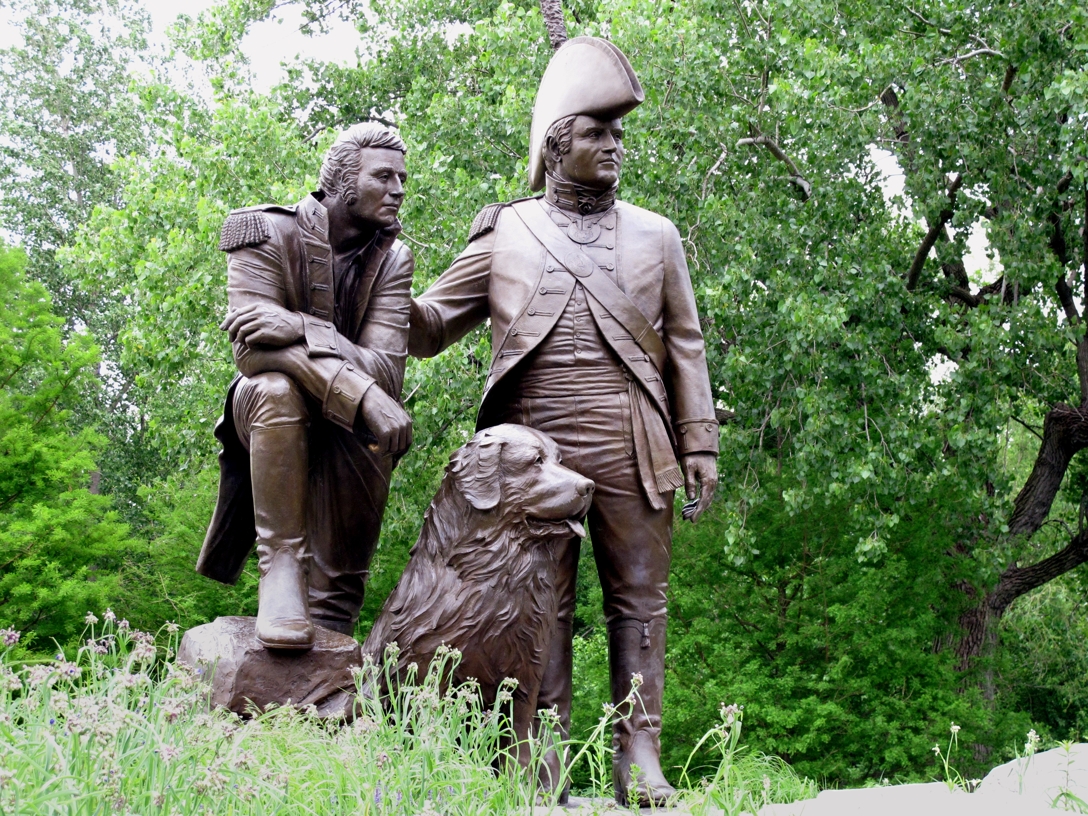 The Lewis and Clark statue at St. Charles. Image ID: amer0145, NOAA's Small World Collection Location: Missouri, St. Charles Photo Date: 2011 May 24 Photographer: Dr. David Goodrich, NOAA (ret.)